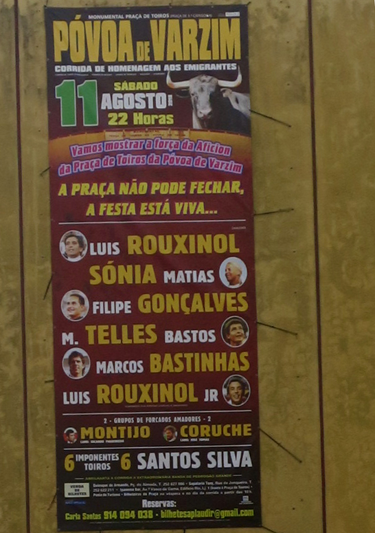 August 2018 Bullfighting poster, Povoa de Varzim, Portugal